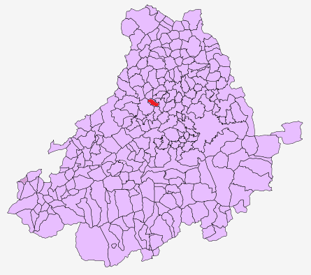 Grandes y San Martín